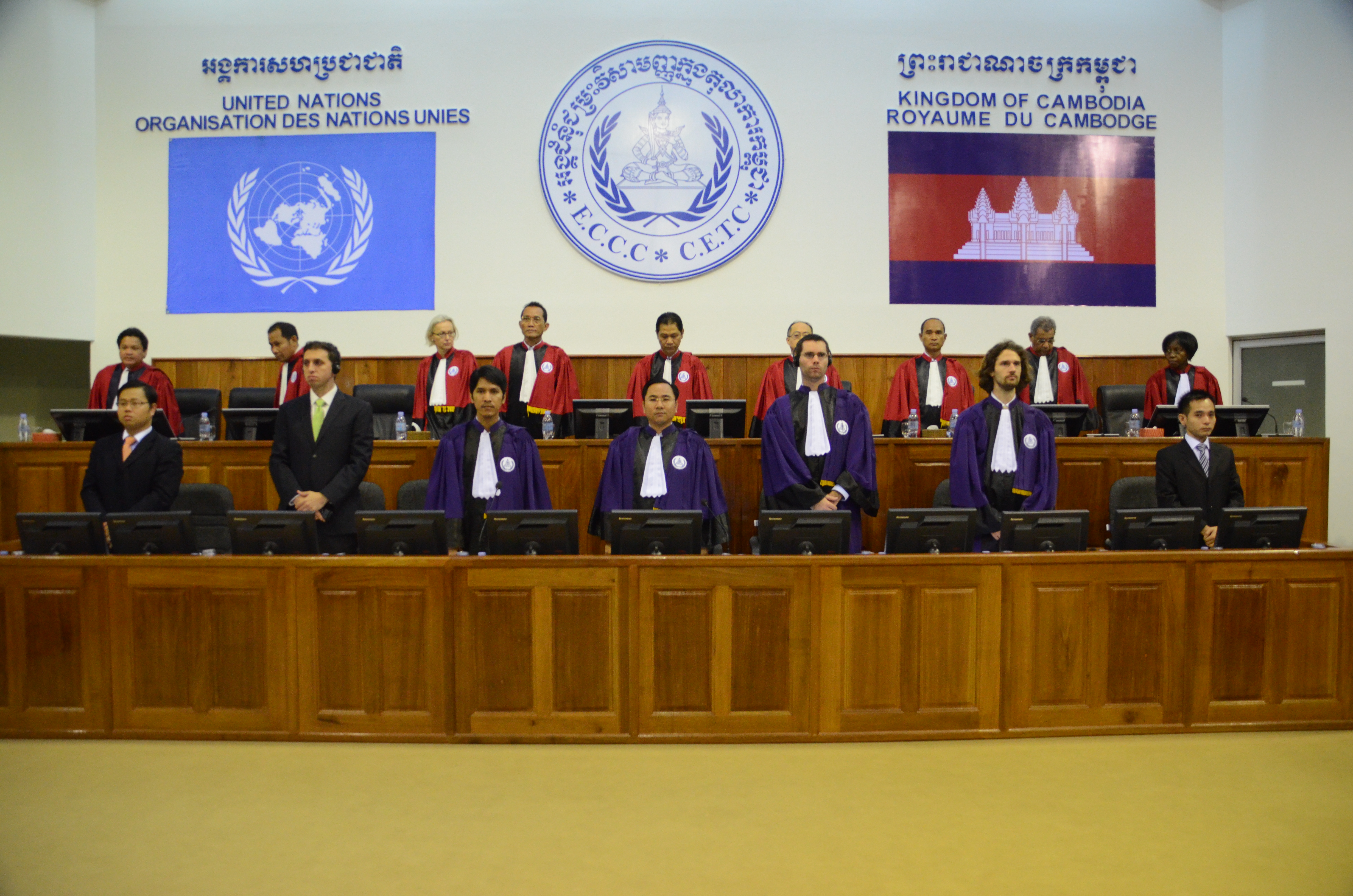 Extraordinary Chambers in the Courts of Cambodia